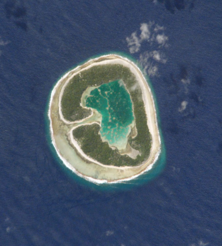 NASA Astronaut Image of Pinaki Atoll (Tuamotu Archipelago, French Polynesia) in the Pacific Ocean